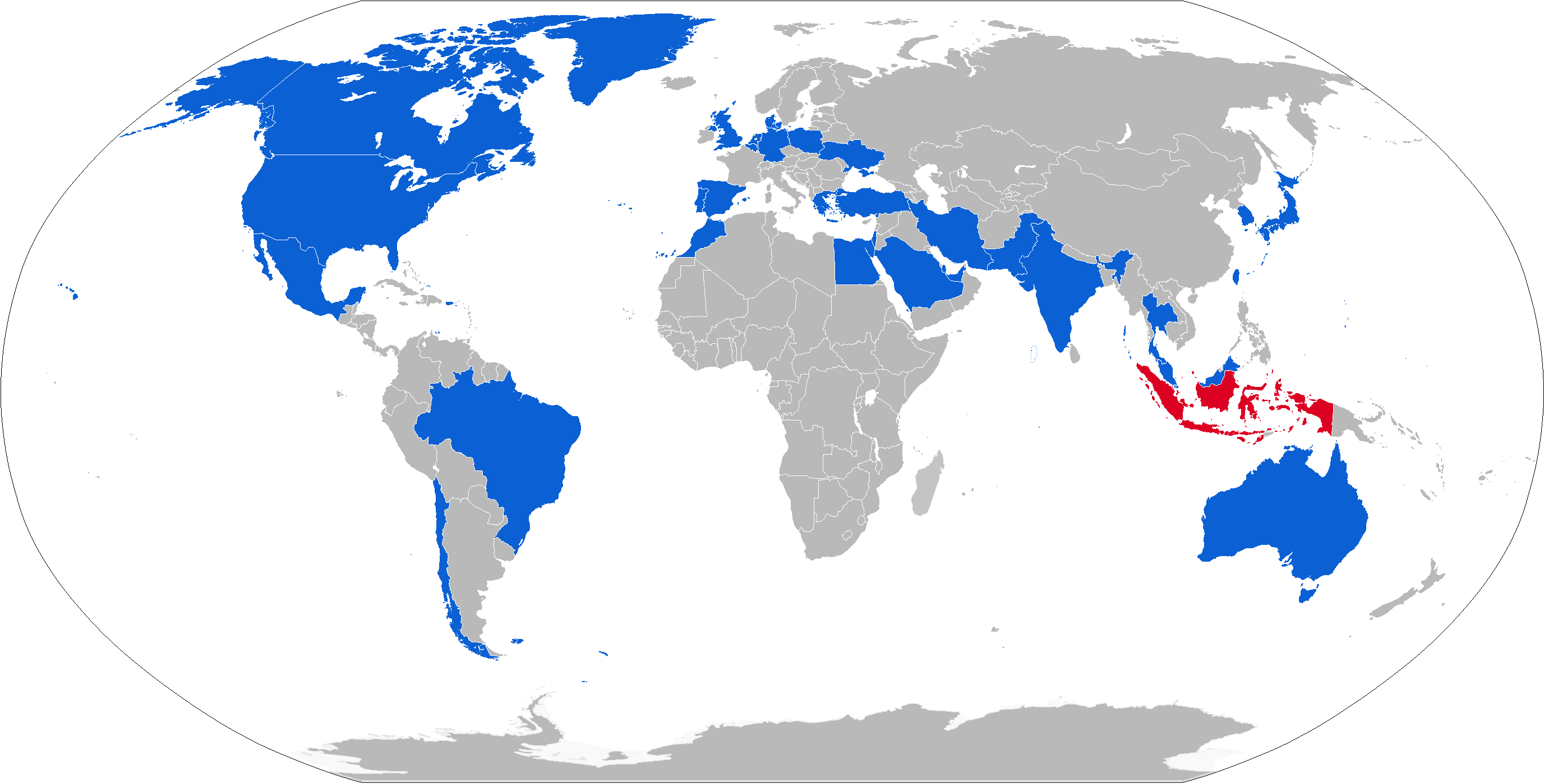 Map with Harpoon operators in blue